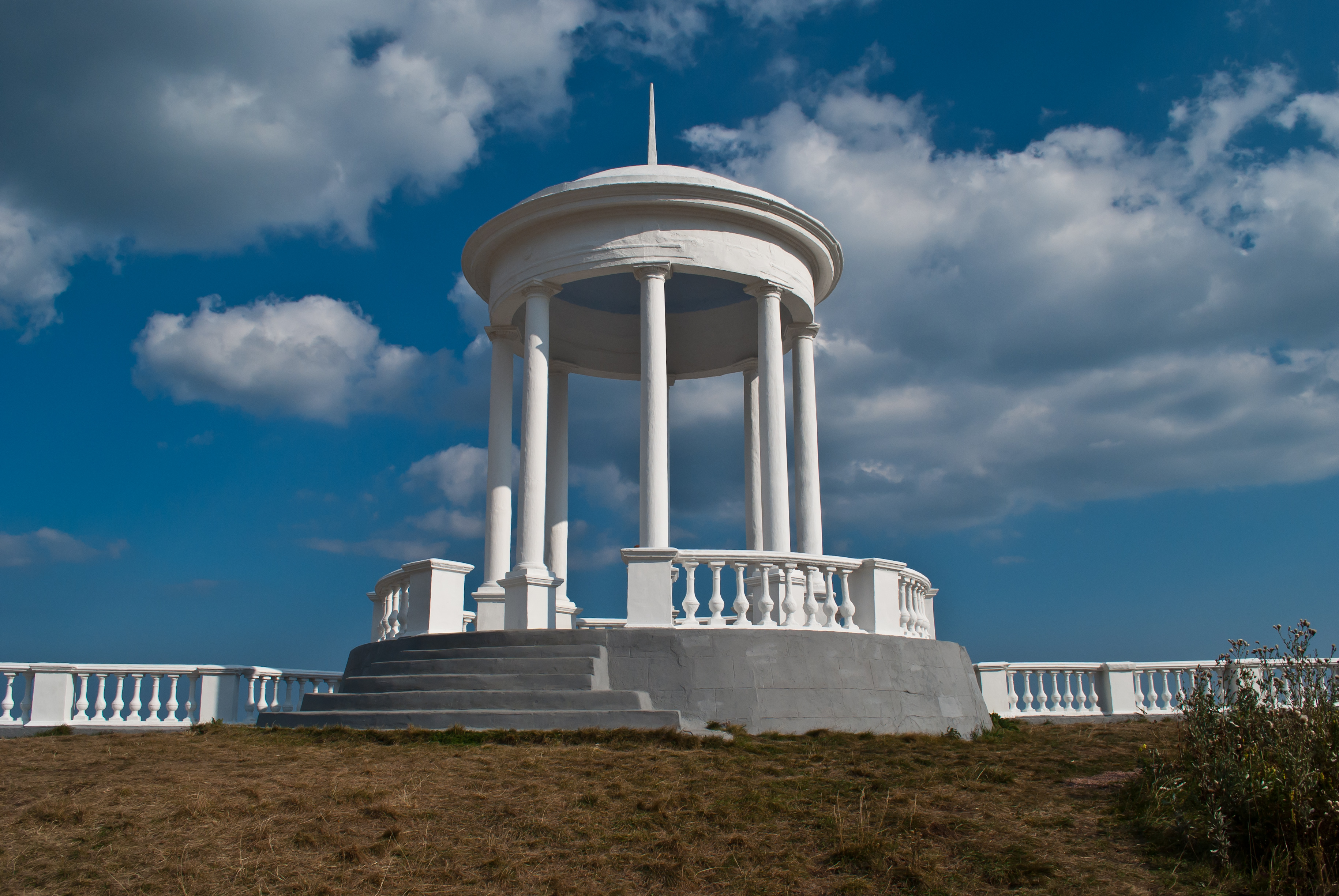 The Wind Pavilion (Crimea)